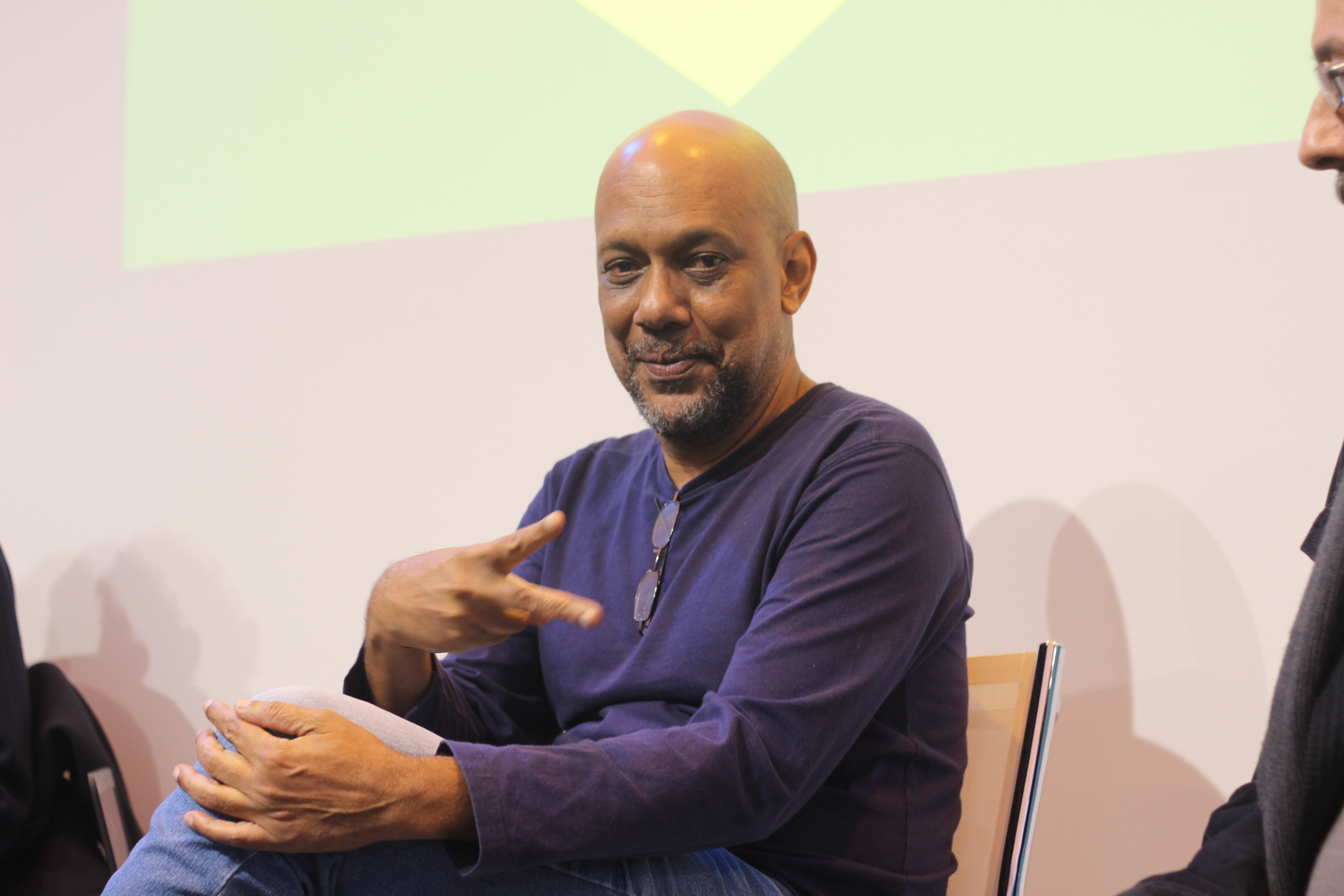 2015 Paris Book Fair, from 20 to 23 March 2015, Paris expo Porte de Versailles.